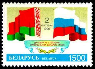 Stamp of Belarus